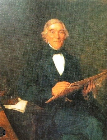 Elias Lönnrot (1802-1884)